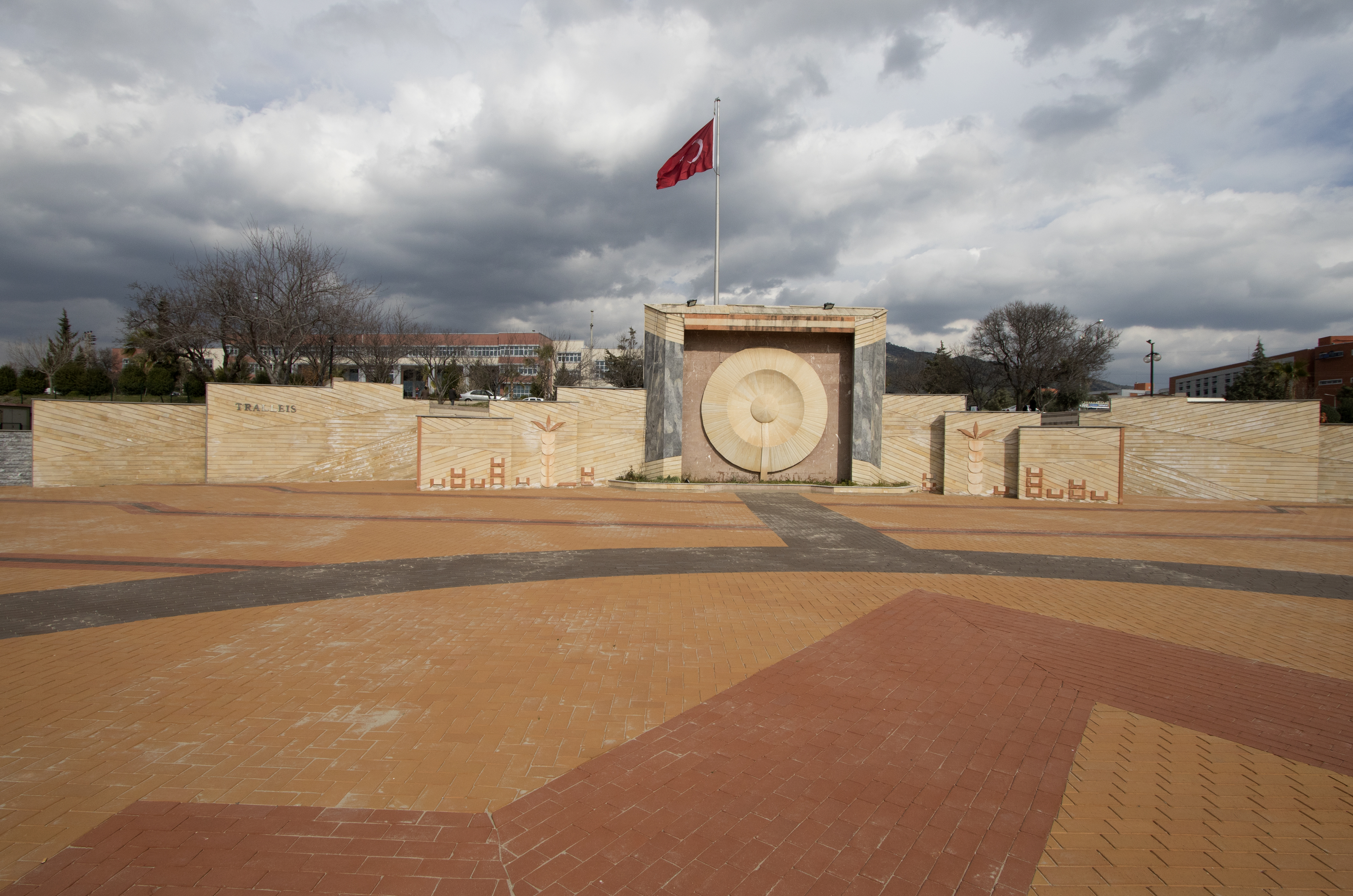 A view of the southern wall of Tralleis Amphitheater at Adnan Menderes University Campus. Aydın, Turkey.